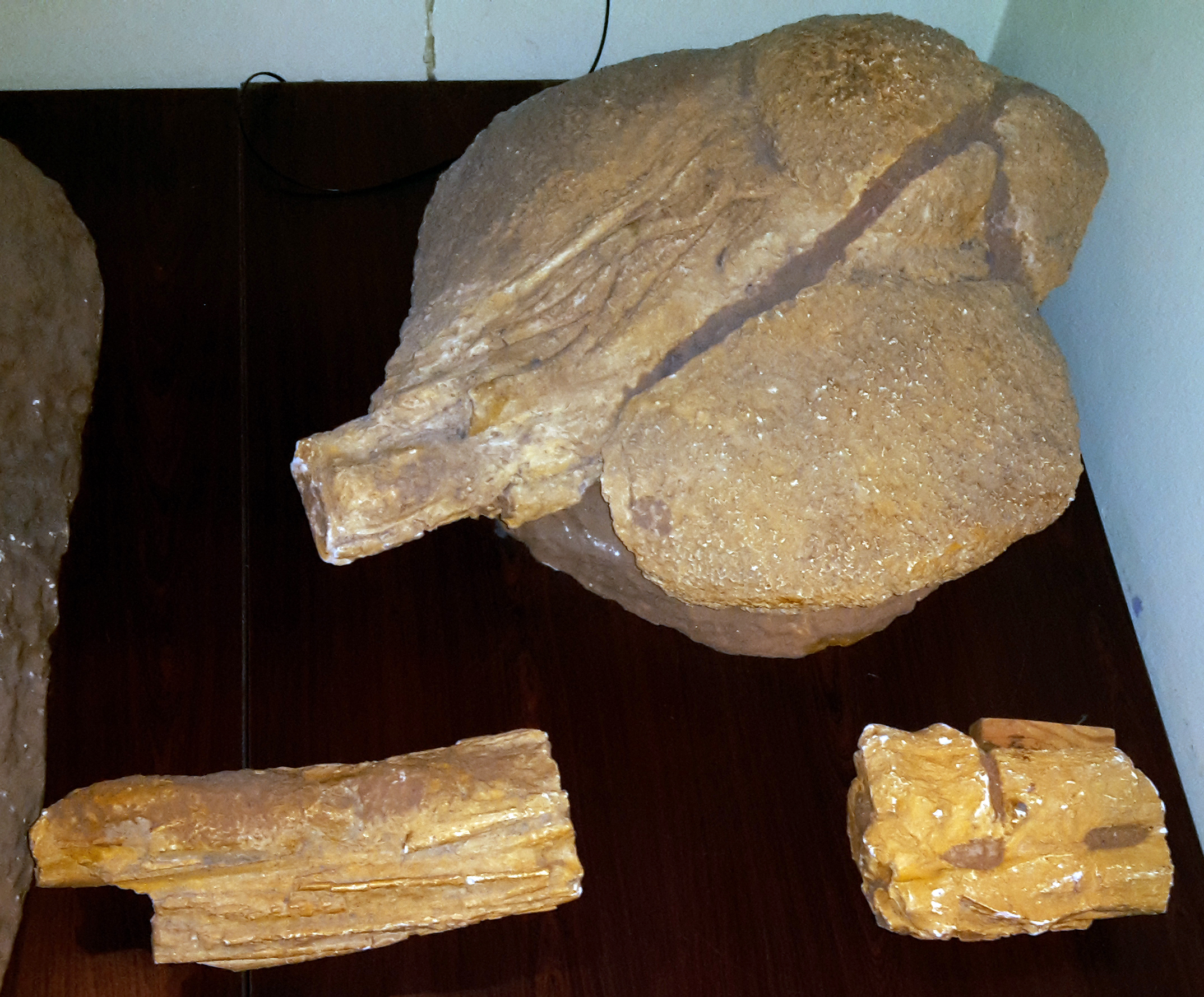 Cats of a tail club assigned to Tarchia gigantea, Museum of Evolution of Polish Academy of Sciences, Warsaw.